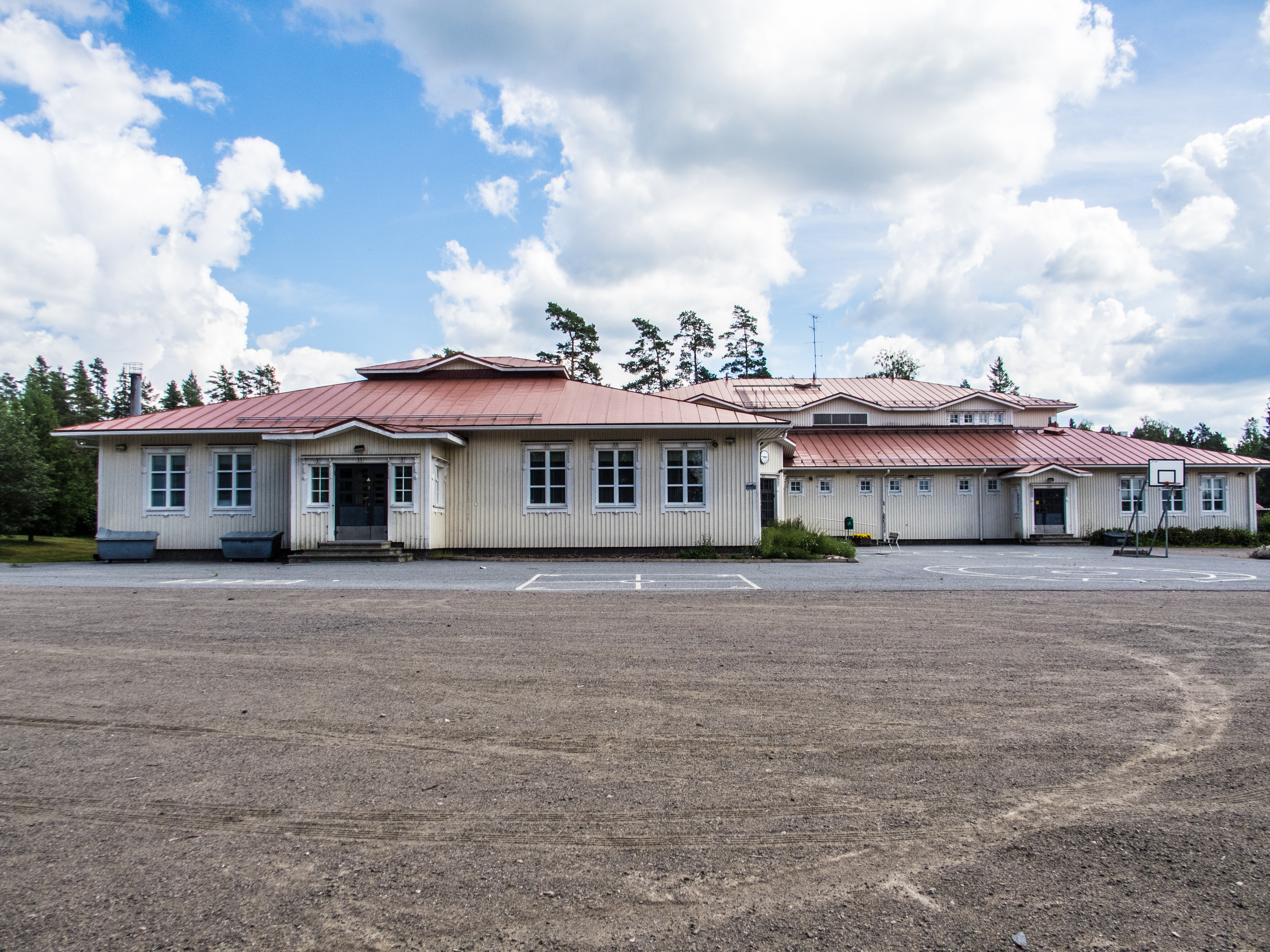 School in Honkilahti village, Eura, Finland. July 2014.